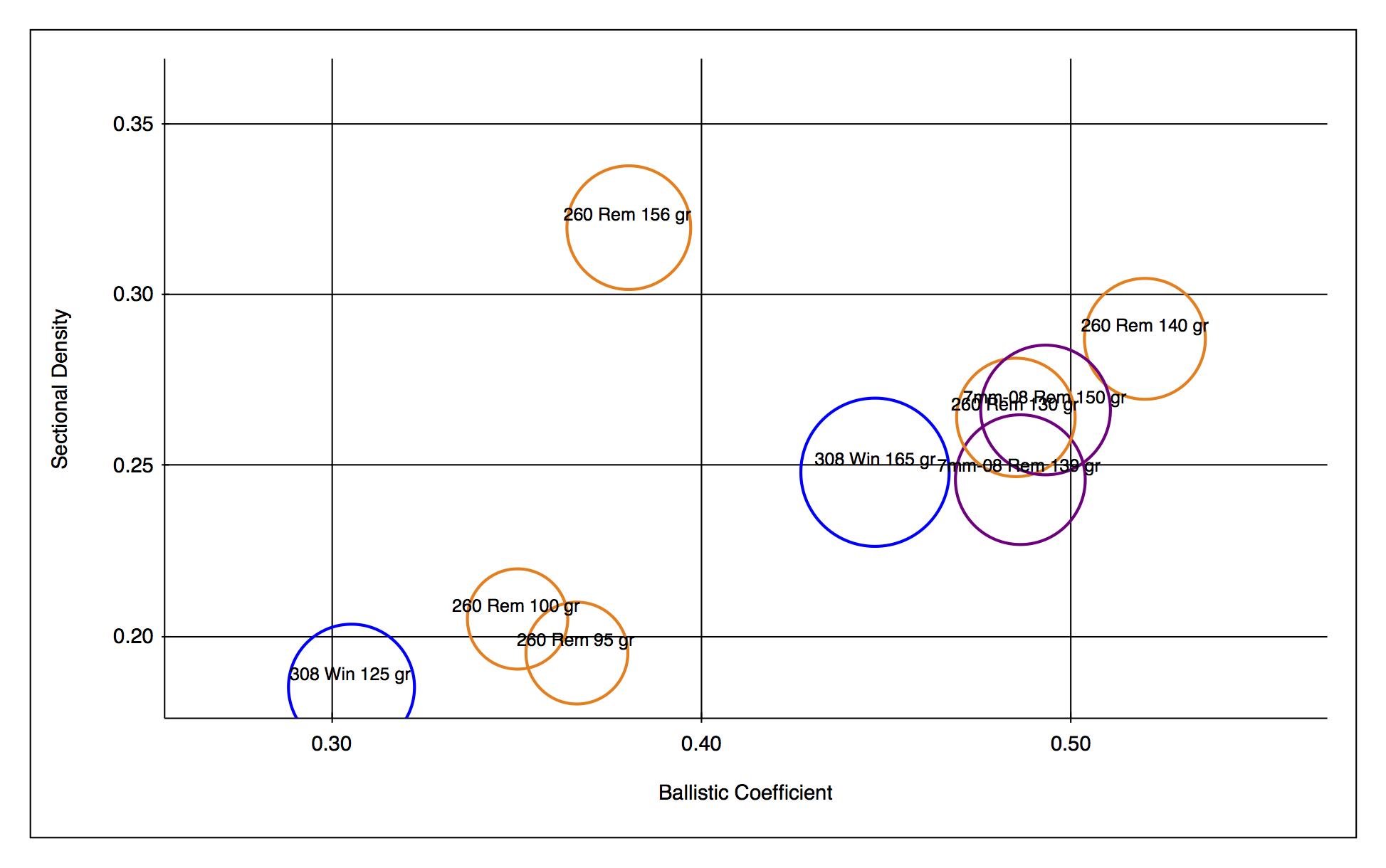 A chart of the Sectional Density vs Ballistic Coefficient of some 260 Remington cartridges. The circle sizes are proportional to recoil velocity. Other calibre's for comparison. Created with the CartridgeChooser iPad App.